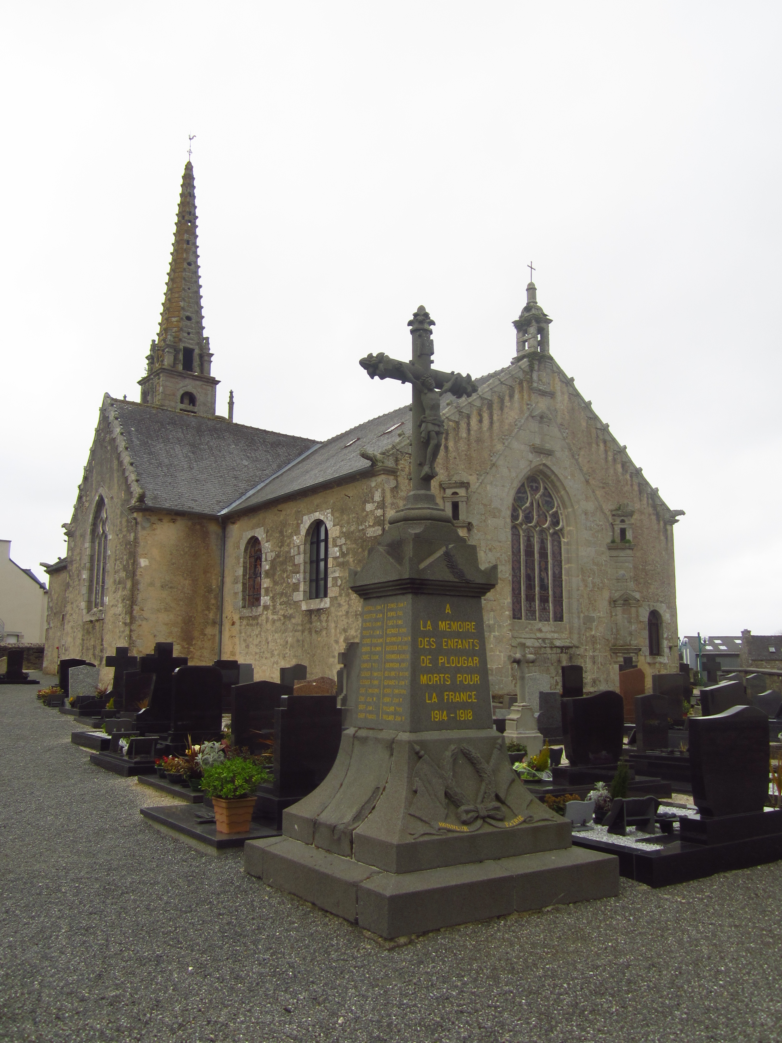 Church of Plougar, Finistère